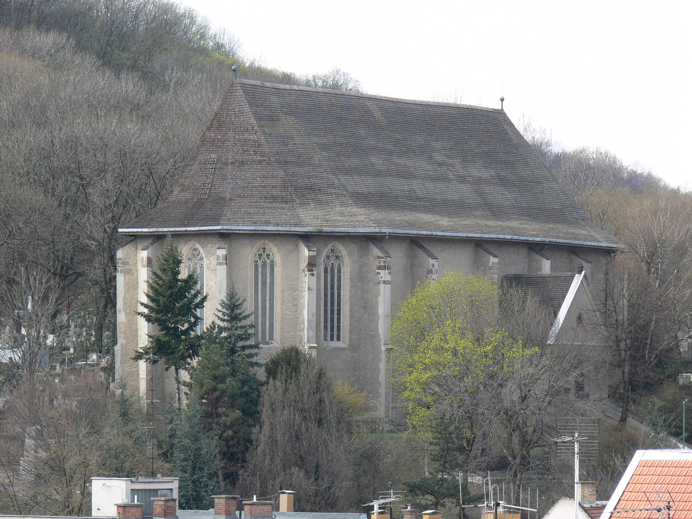 Gothic Protestant Church of Avas / Avasi Református Templom